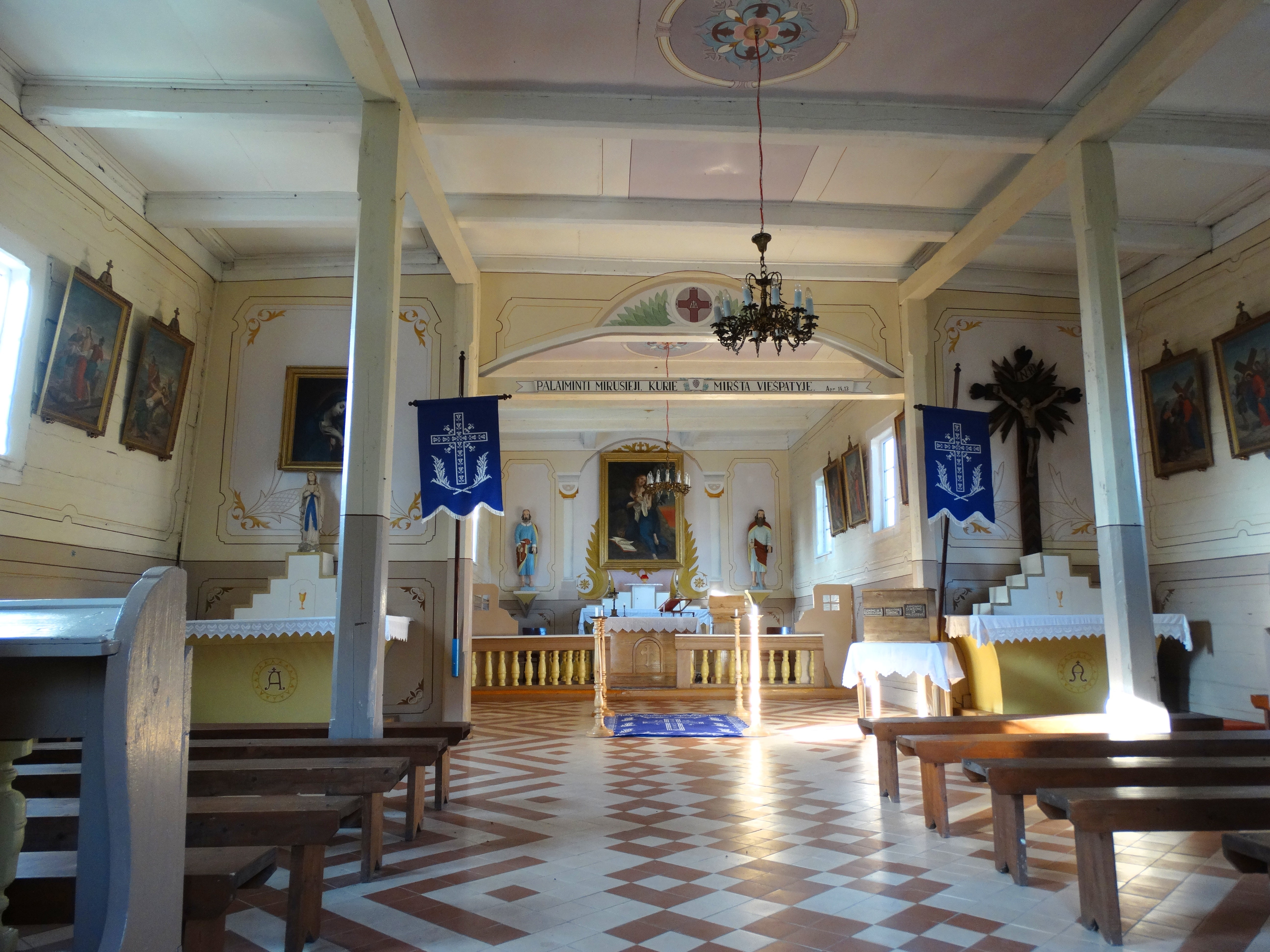 Cemetery chapel, Grūstė, Mažeikiai District, Lithuania